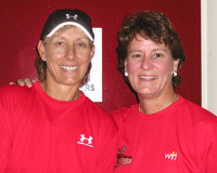 WTT Boston Lobsters coach Dr. Anne Smith with teammate Martina Navratilova